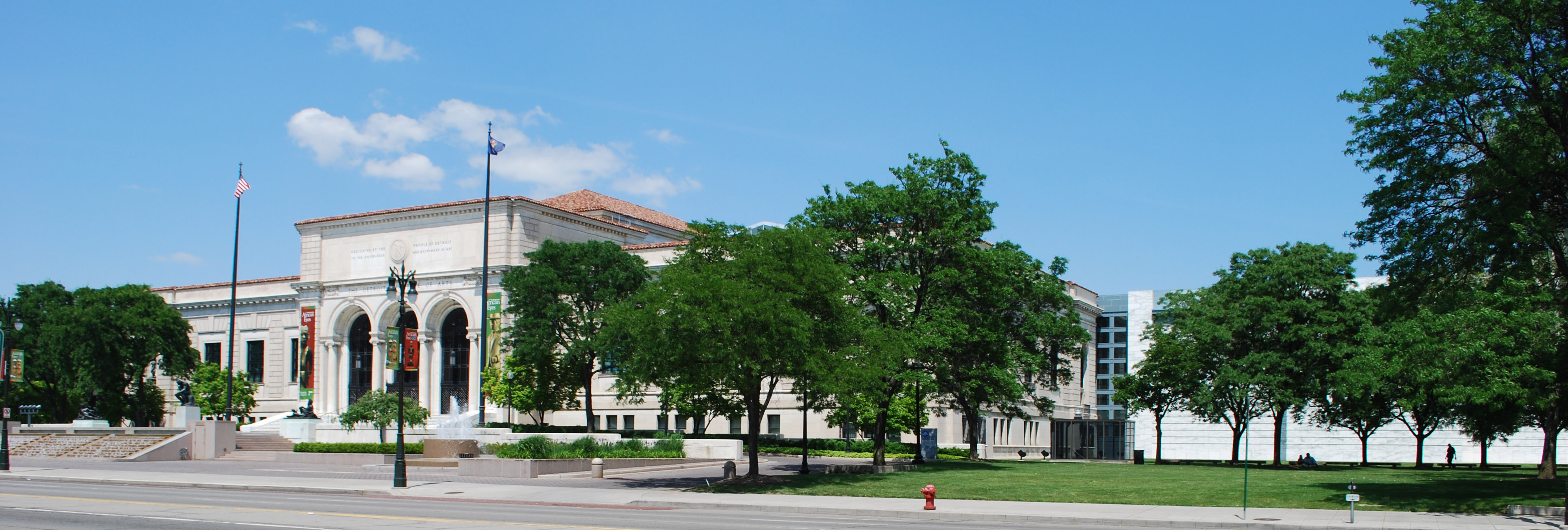 Detroit Institute of the Arts. Contributing property to the Cultural Center Historic District.